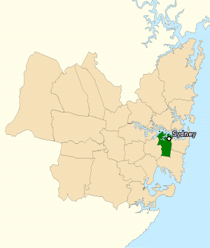 This image incorporates data that is: © Commonwealth of Australia (Australian Electoral Commission) 2009 Division of Sydney 2010